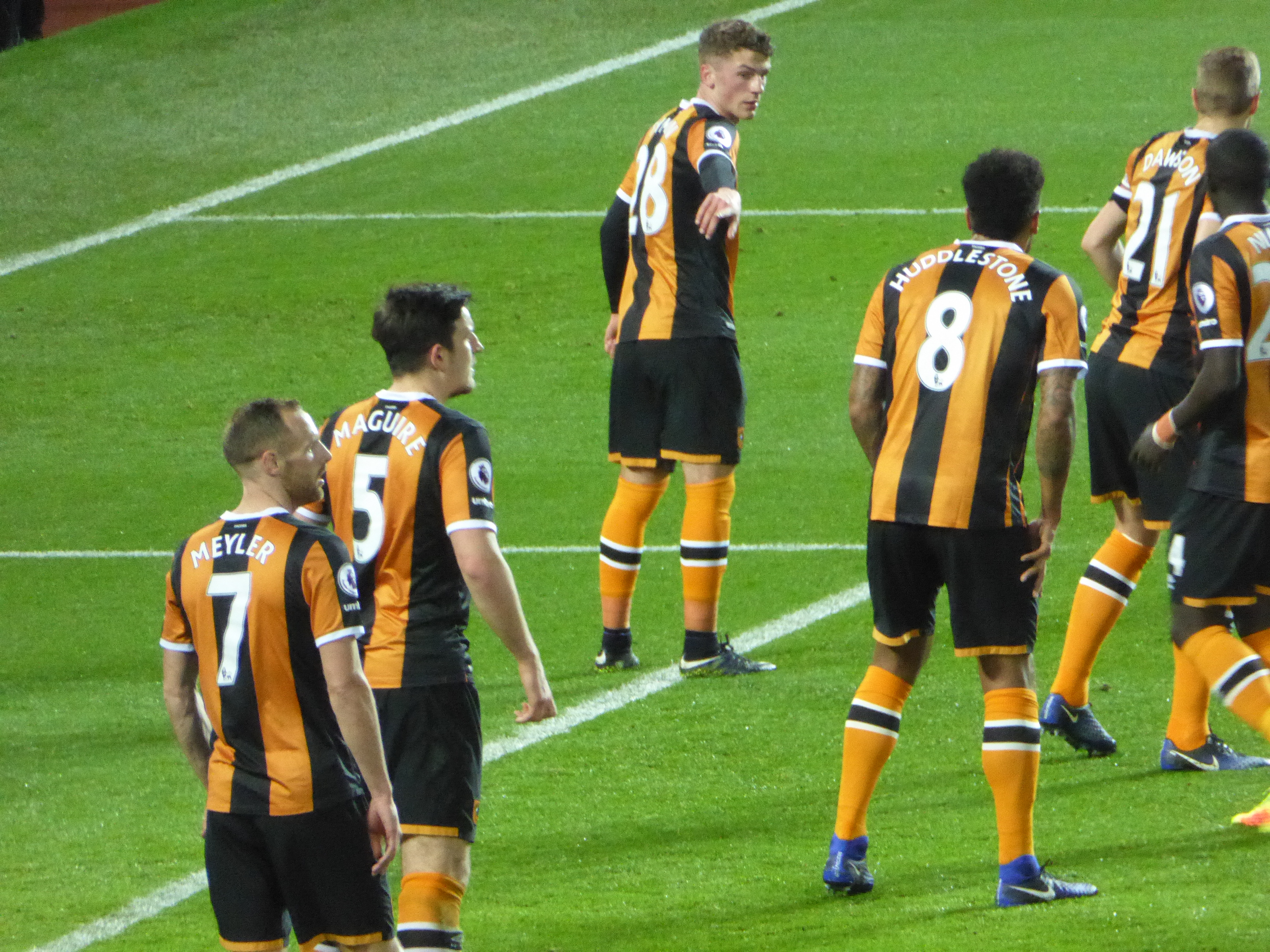 Manchester United v Hull City (0-0), Premier League, Old Trafford, Manchester, Greater Manchester, England, 1 February 2017